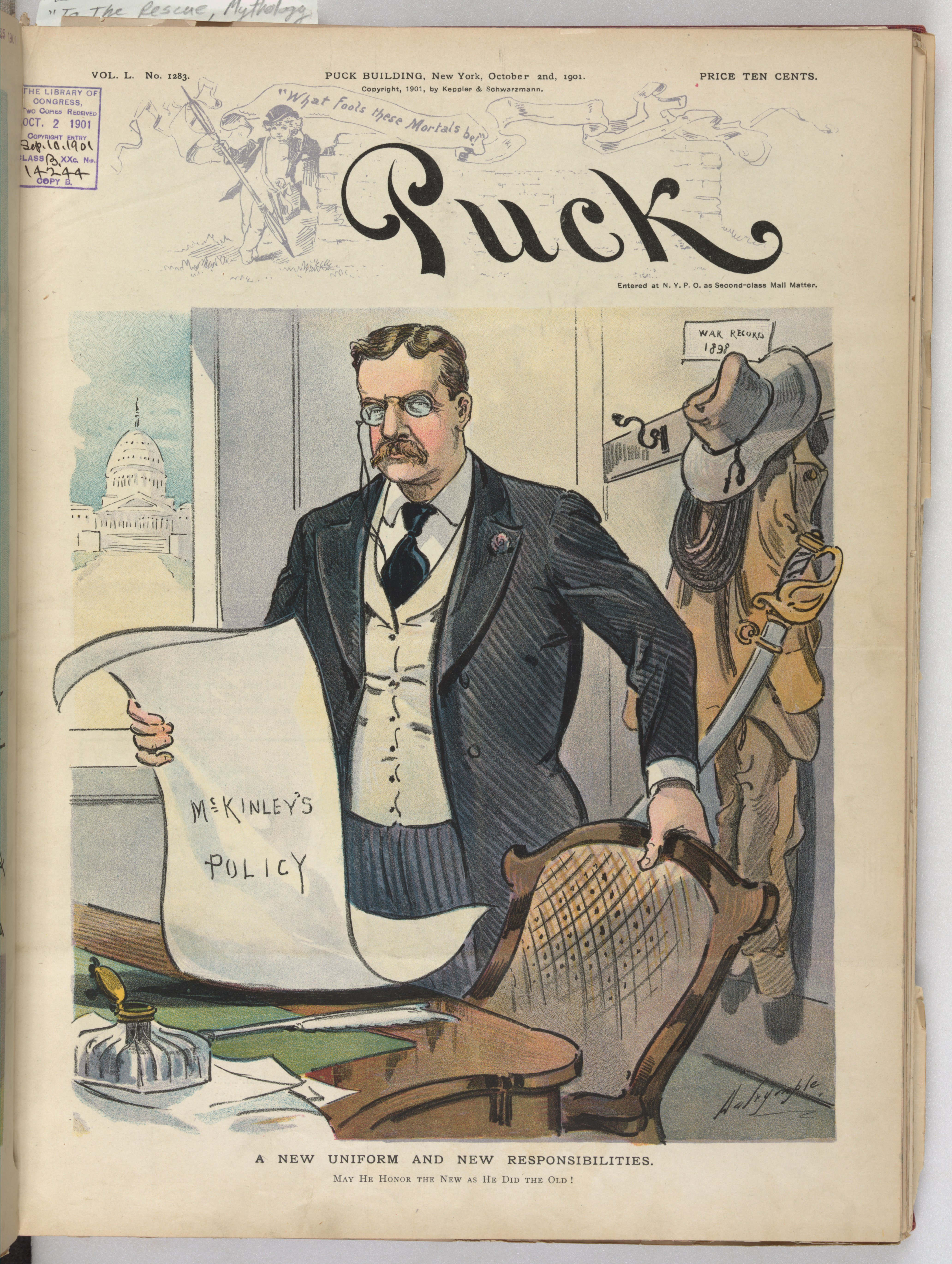 Title: A new uniform and new responsibilities / Dalrymple. Abstract/medium: 1 print : chromolithograph.